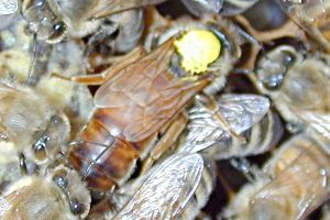 Bee queen Quelle: selbst fotografiert Fotograf: Alex für die Wikipedia Kamera: Nikon Coolpix 950 Software: GIMP Andere Versionen: - Lizenzstatus: GNU FDL